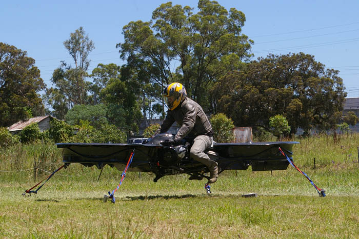 Malloy Hoverbike undergoing tethered ground testing, prior to untethered tests